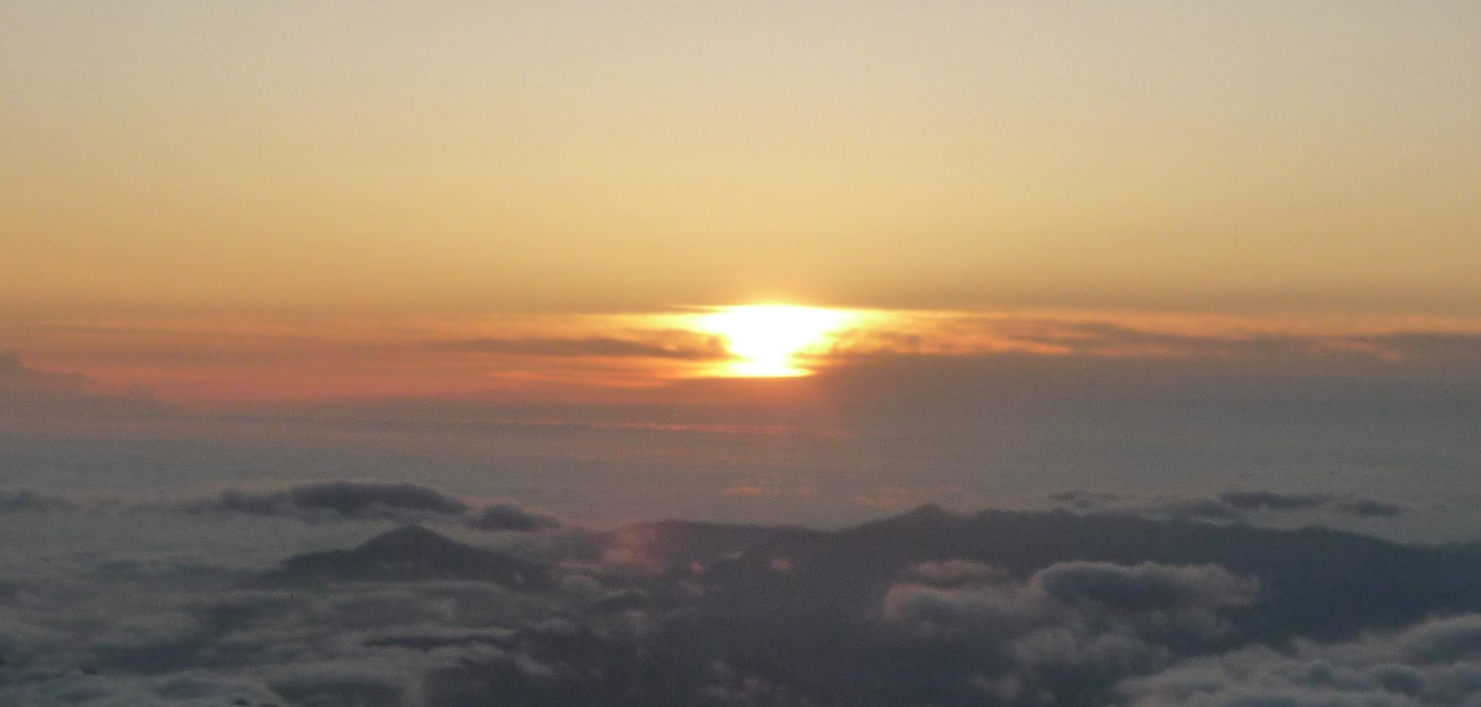 Mt.Fuji(FUJISAN) Fujiyoshida,yamanashi